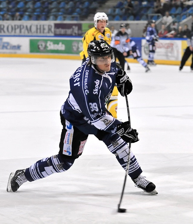 Björn Bombis, Dresdner Eislöwen